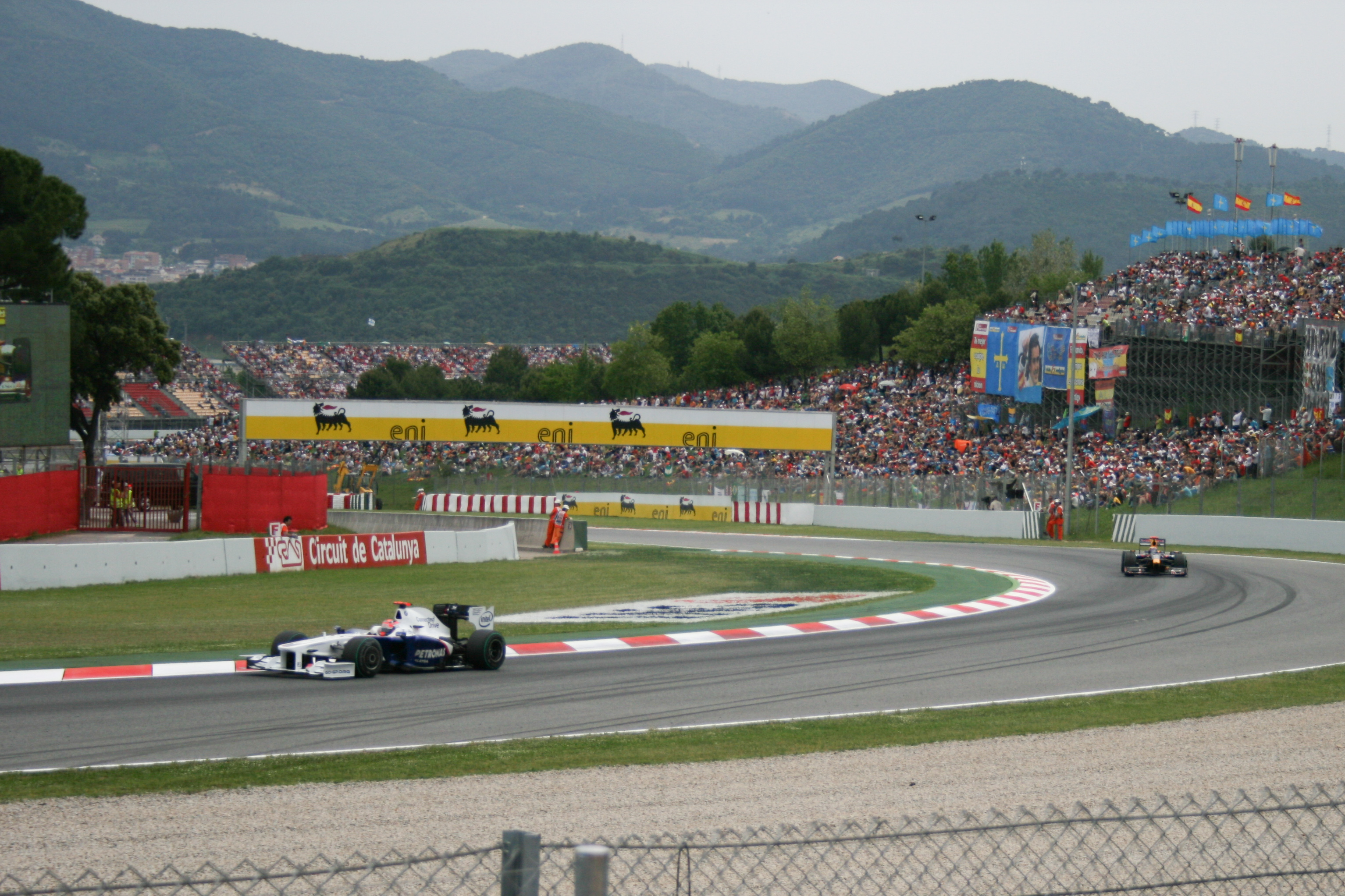 2009 Spanish Grand Prix